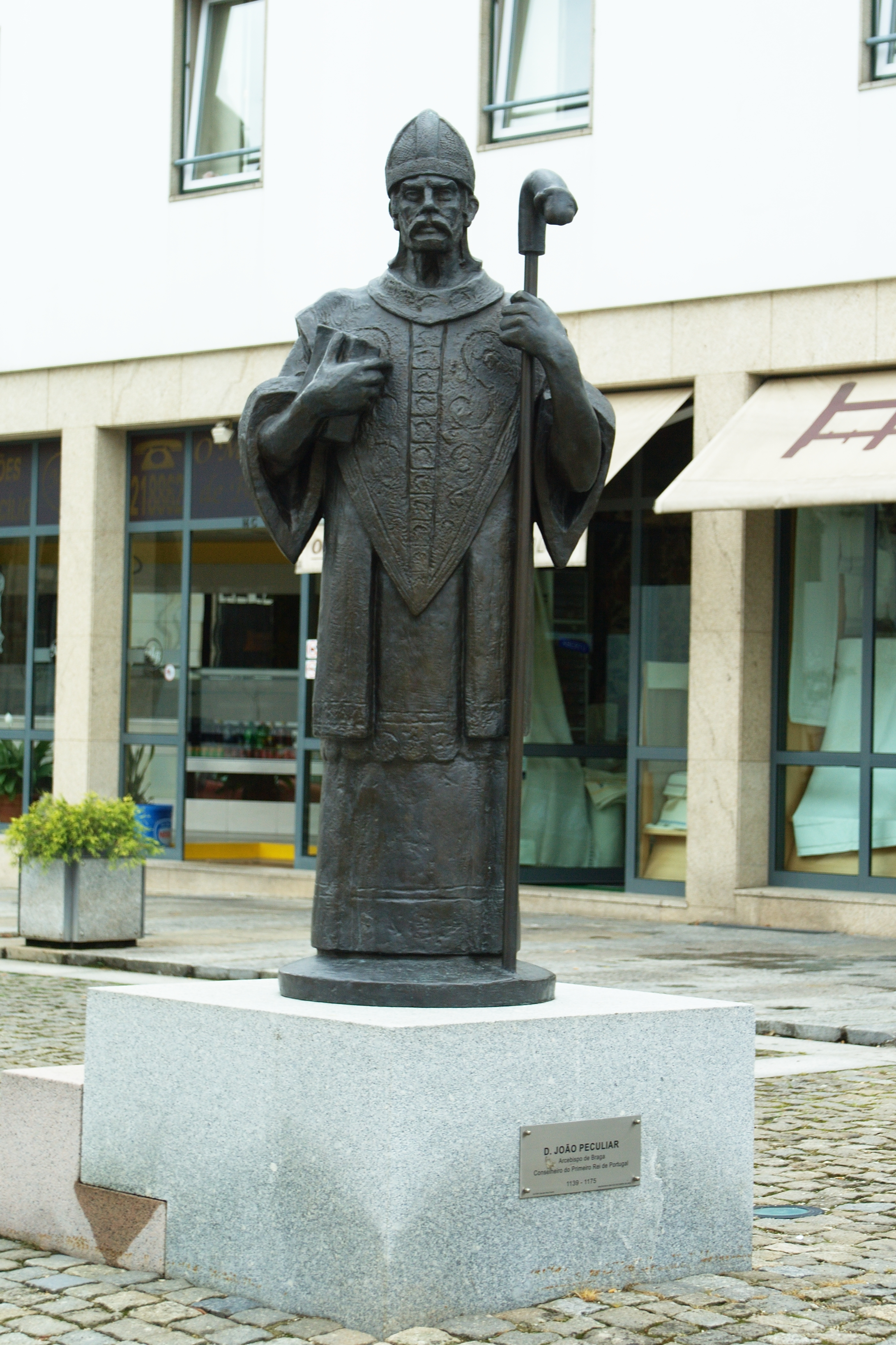 Monument of João Peculiar archbishop of Braga